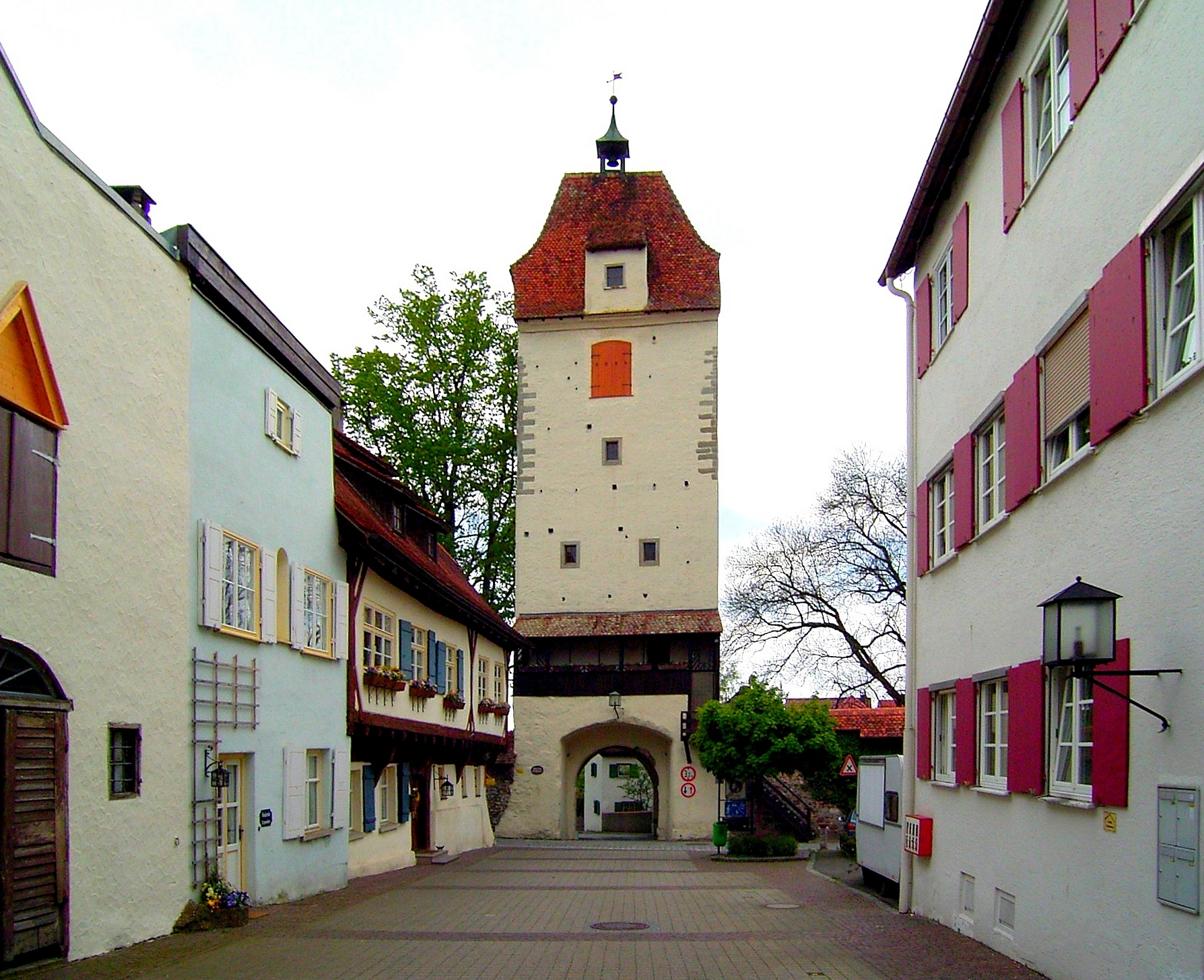 Espantor city gate in Isny, Germany